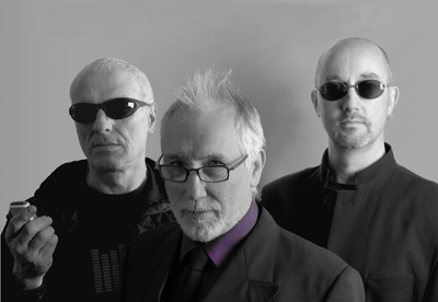 Jade Warrior group photo